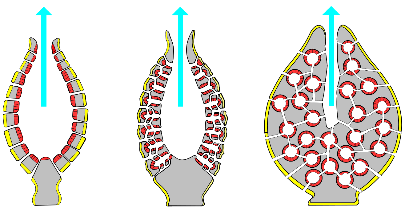 Porifera body structure, for use with annotated image. Colour-coding: Yellow: pinacocytes Red: choanocytes Grey: mesohyl Pale blue: water flow Structure types: Left: asconoid Middle: syconoid Right: leuconoid Ref: Ruppert, E.E., Fox, R.S., and Barnes, R.D. (2004) Invertebrate Zoology (7th ed.), Brooks / Cole, p. 78 ISBN: 0030259827.